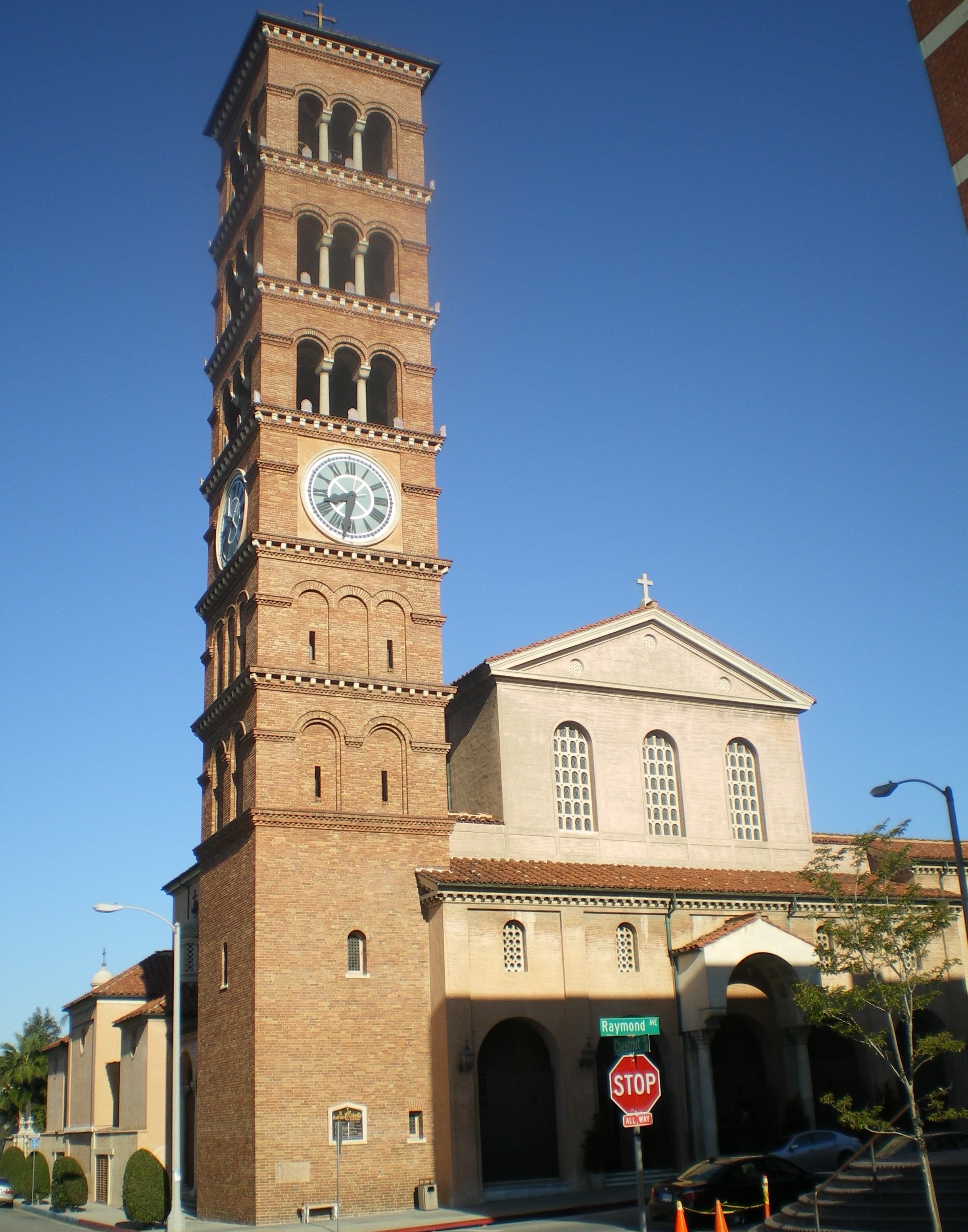 St. Andrew's Catholic Church (Pasadena, California)